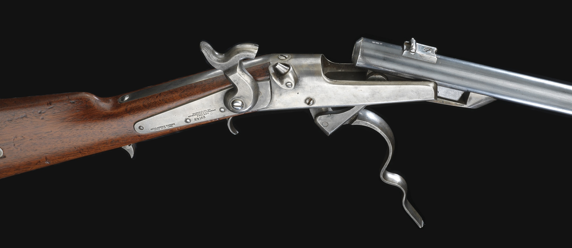 Gallager Carbine at the National Museum of American History